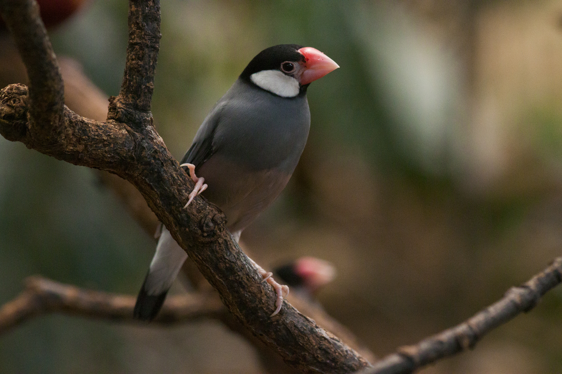 A Java Sparrow (also known as Java Finch and Java Rice Bird) in captivity.